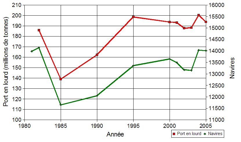 Traffic on the Panama canal, in terms of numbers of ships and total tonnage. Source: Quid 2006 and Authority website.